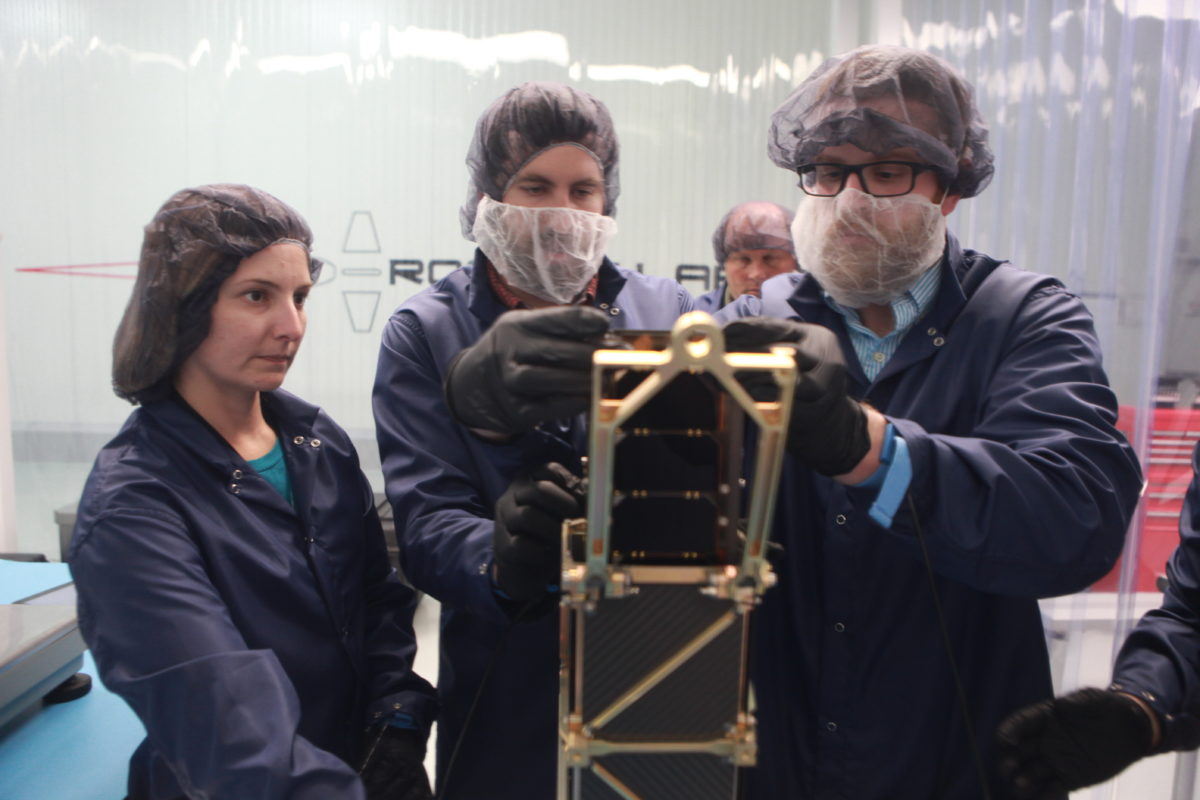 STF1 CubeSats getting loaded into the deployer inside Rocket Lab facility, located at Huntington Beach California.